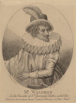 Portrait of Francis Godolphin Waldron, (1744–1818), English writer and actor.